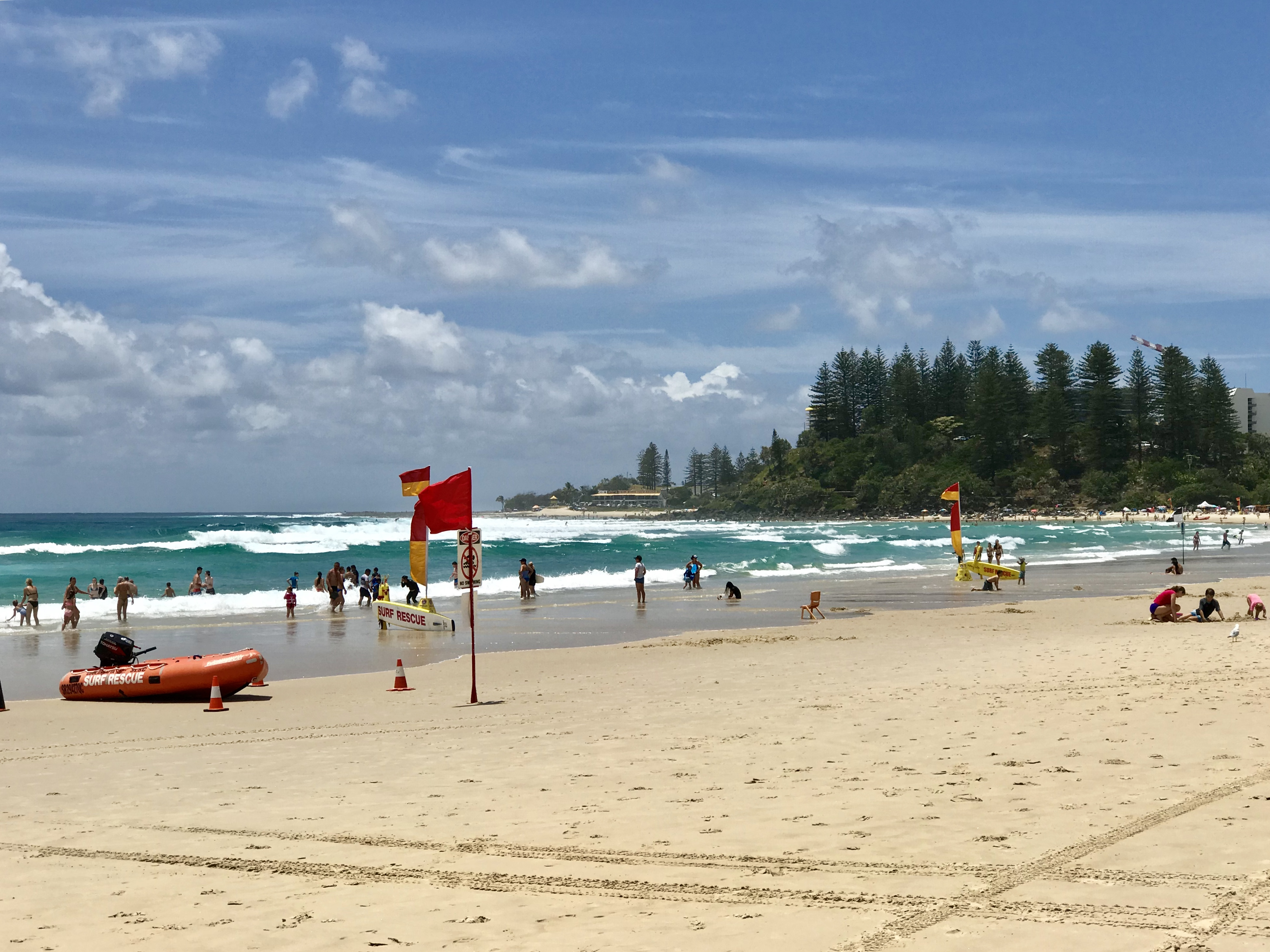 Coolangatta Beach, Queensland